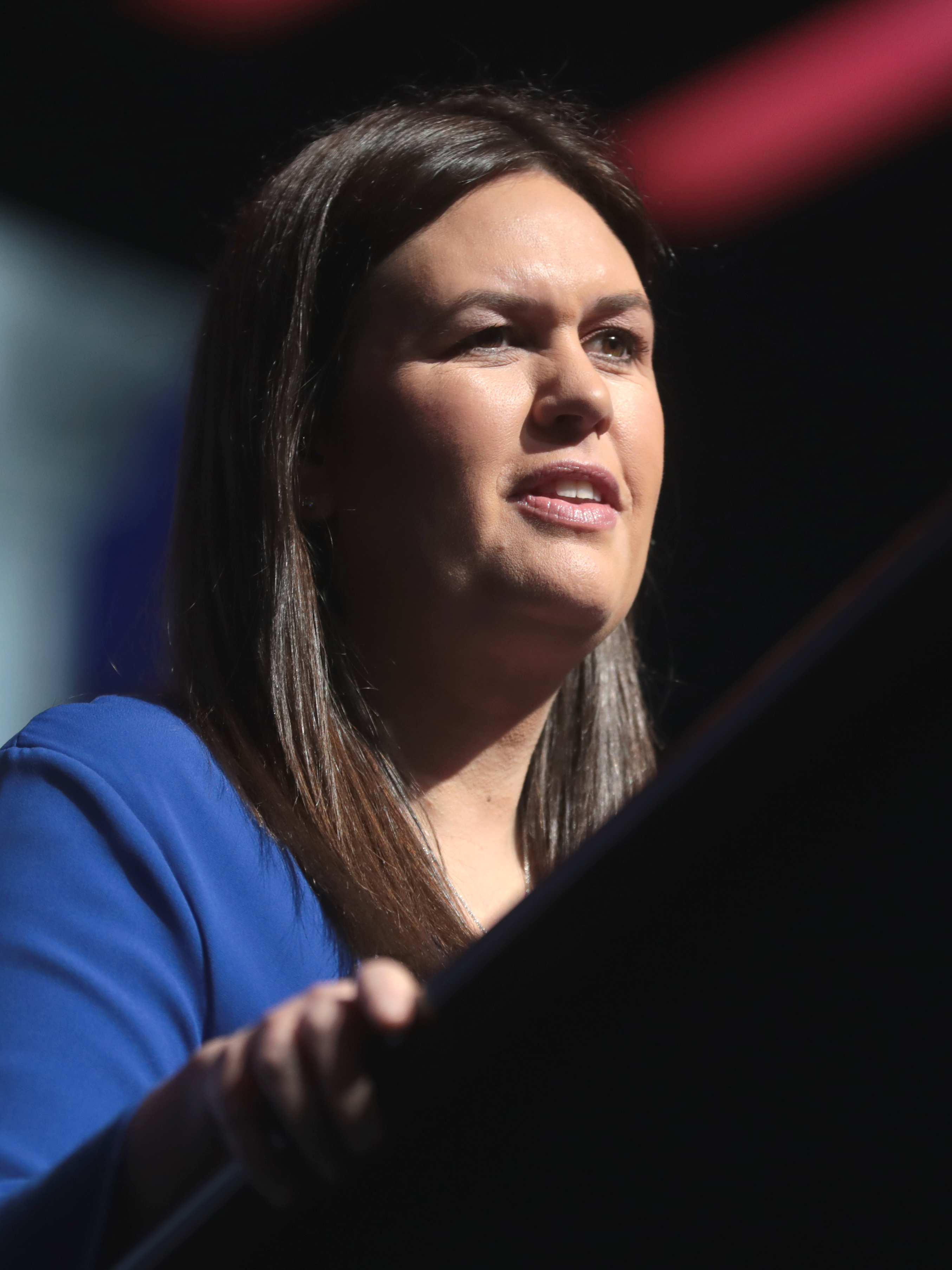 Former White House Press Secretary Sarah Huckabee Sanders speaking with attendees at the 2019 Student Action Summit hosted by Turning Point USA at the Palm Beach County Convention Center in West Palm Beach, Florida.